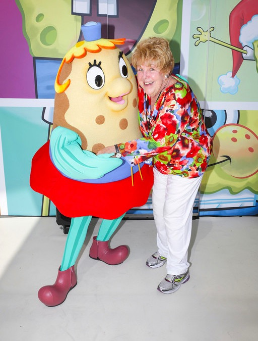 Mary Jo Catlett at Universal Studios Hollywood with a mascot costume of Mrs. Puff.